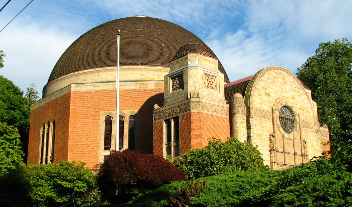 Temple Beth Israel (built 1926), at 1931 Northwest Flanders Street in Portland, Oregon, United States, is listed on the US National Register of Historic Places.